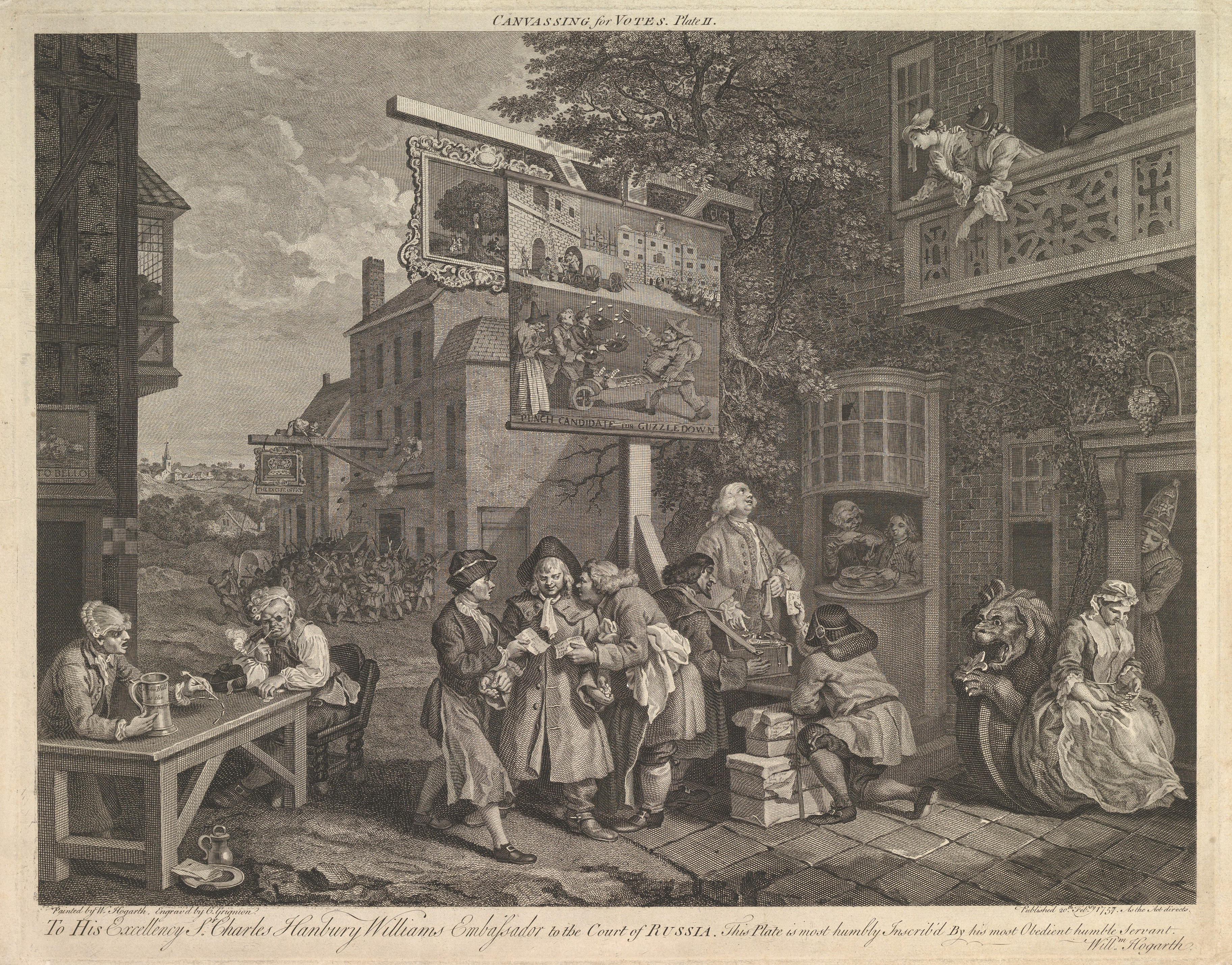 Print; Prints